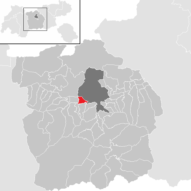 District Innsbruck Land